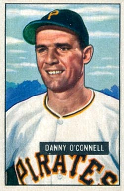 1951 Bowman baseball card of Danny O'Connell of the Pittsburgh Pirates #93. PD-not-renwed.